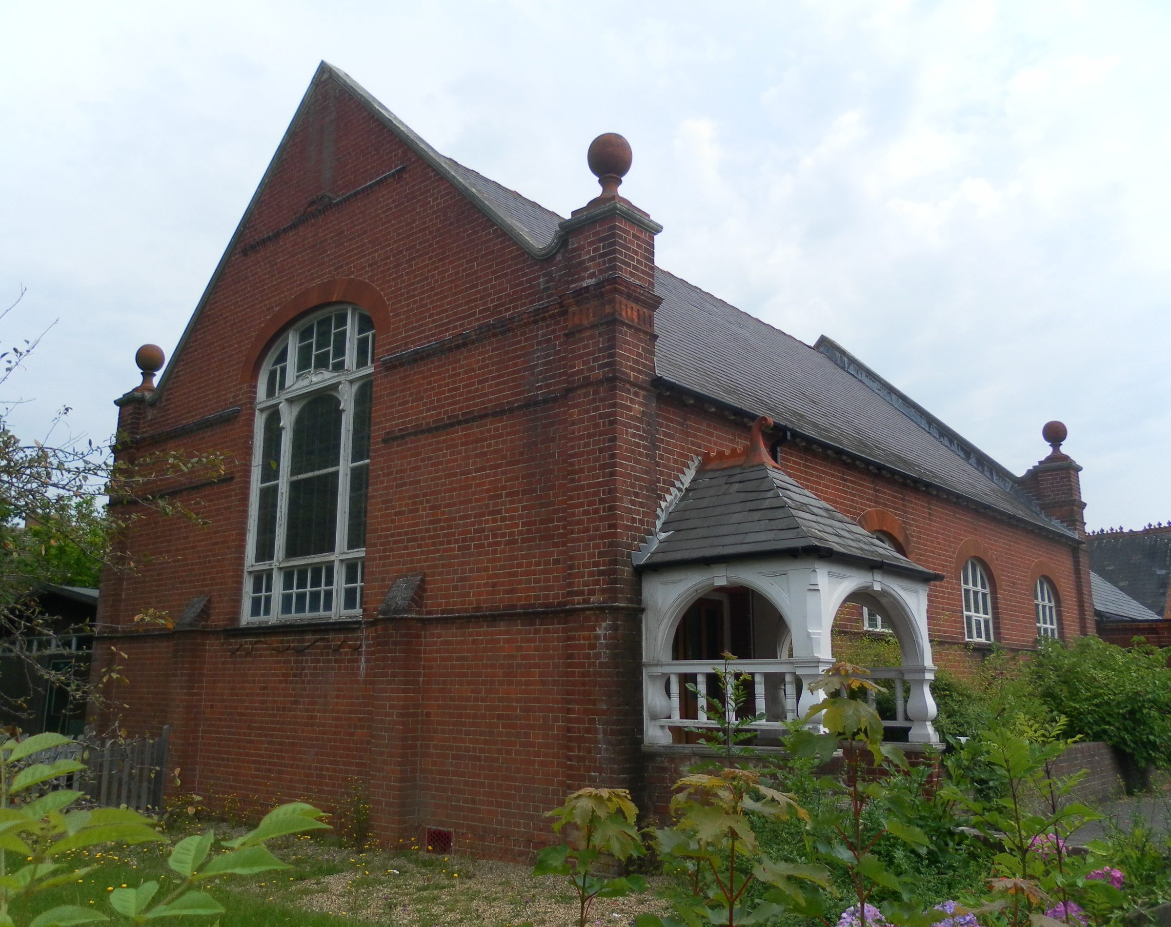 Pembury Baptist Church, Romford Road, Pembury, Borough of Tunbridge Wells, Kent, England. Built as Union Chapel (Baptist and Congregational) in 1887; became Pembury Free Church in the 1920s and is now Pembury Baptist Church.